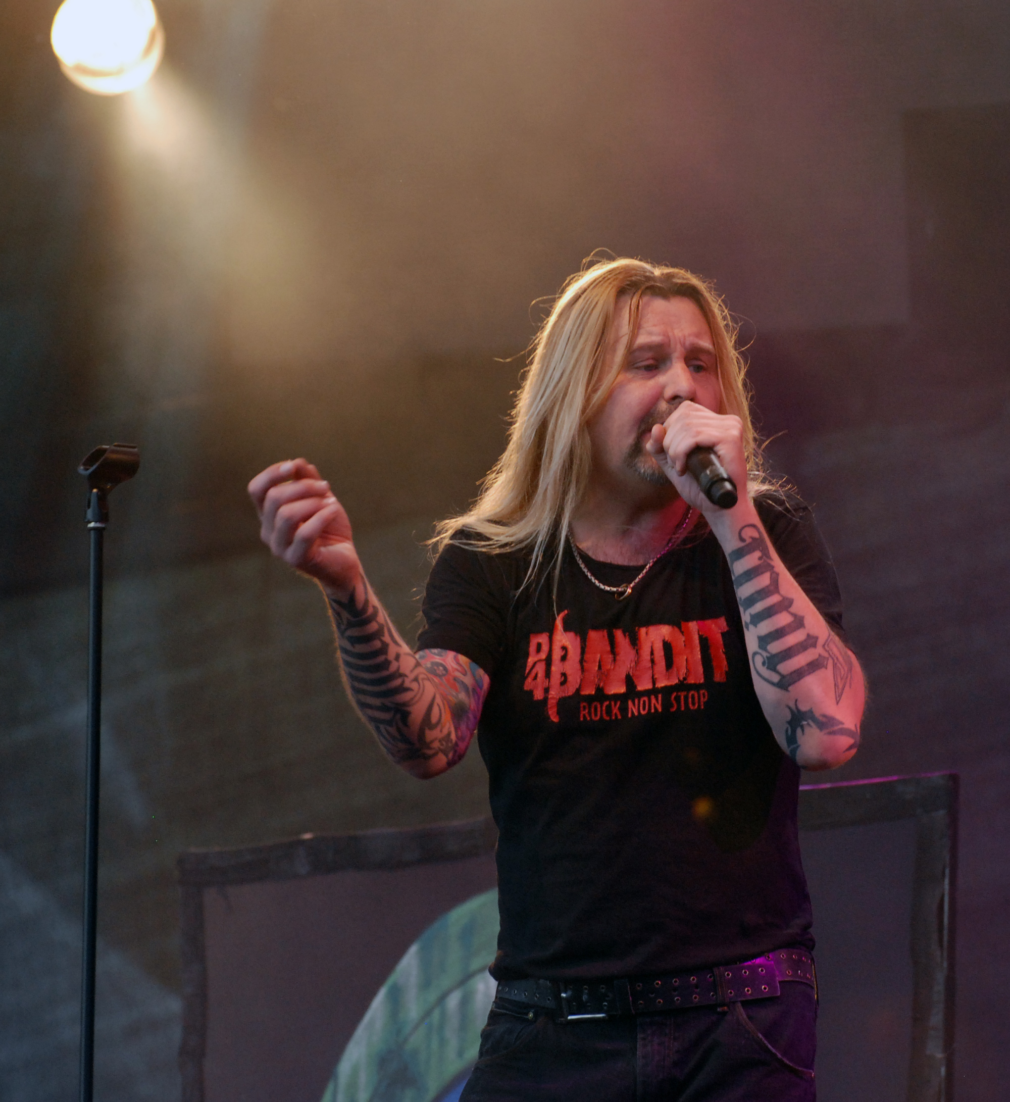 Tony Mills of TNT live at Hamar Music Festival 2009.